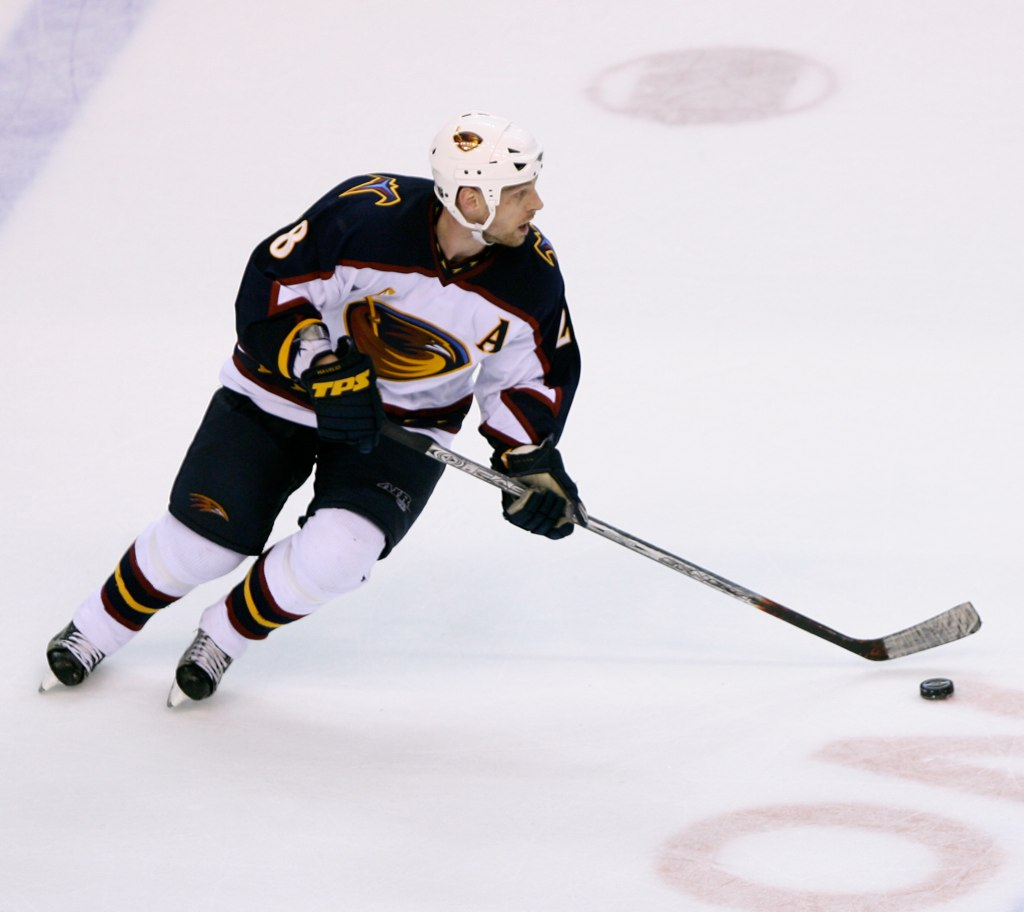 Niclas Havelid in Atlanta Thrashers jersey.